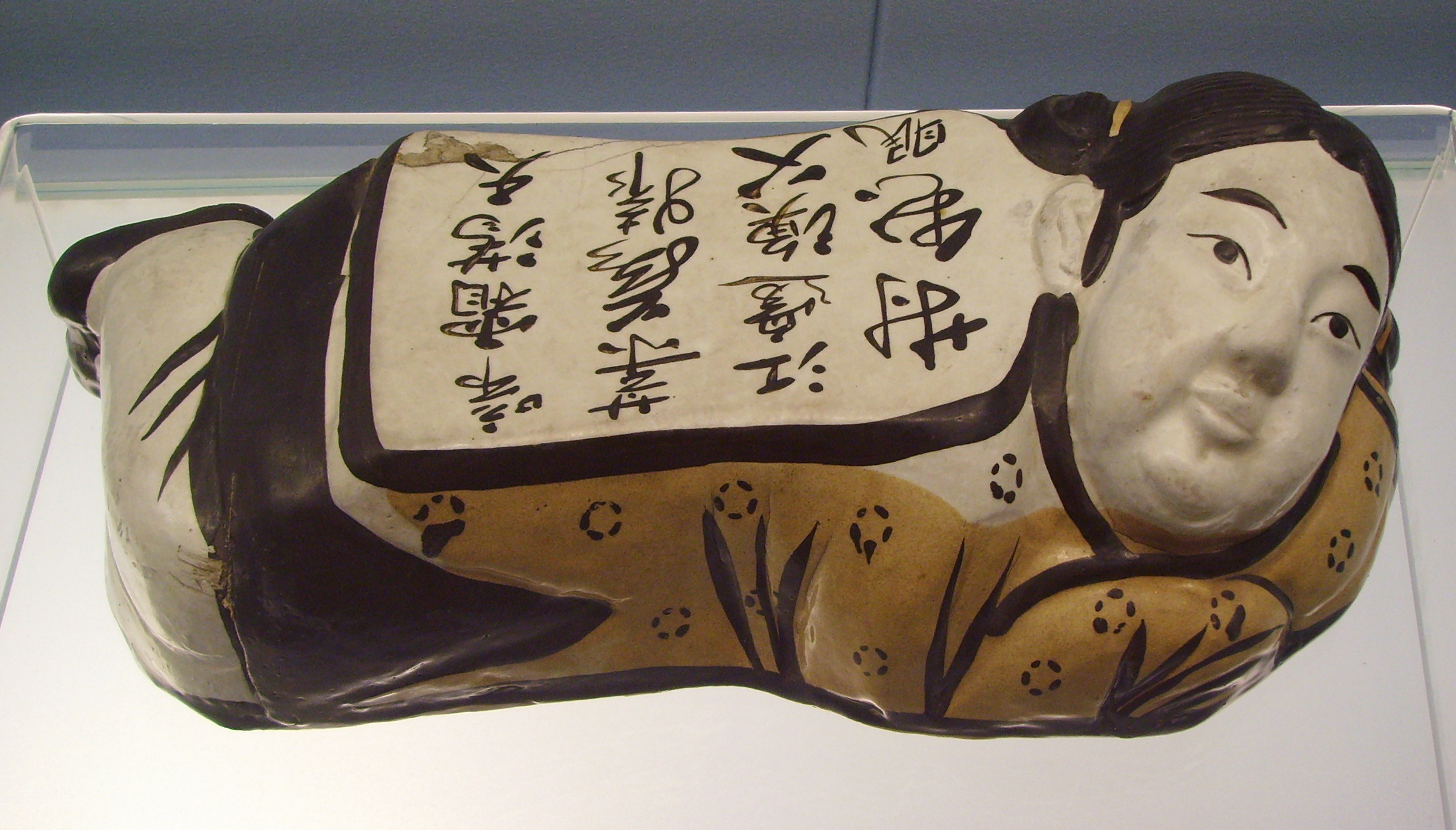 Shanghai Museum, Shanghai, P.R. of China: Child-shaped pillow, porcelain, Cizhou Ware, Jin Dynasty